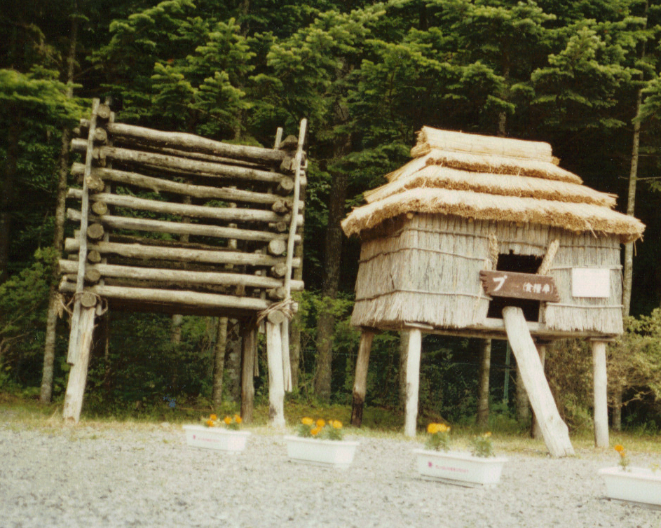 Traditional store house (right) and bear cage (left) of the Ainu. Ainu Museum, City of Shiraoi, Hokkaido, Japan.